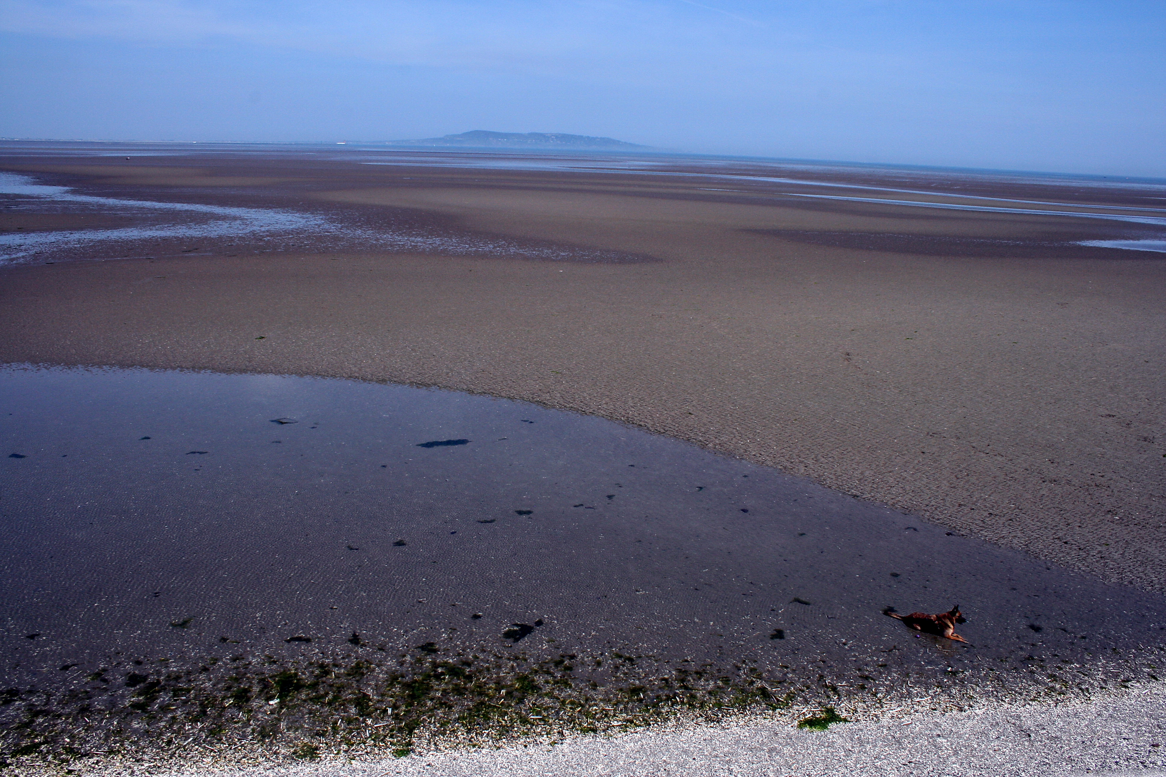 The sandy expanse the Irish Sea coastline at Dublin Bay at low tide